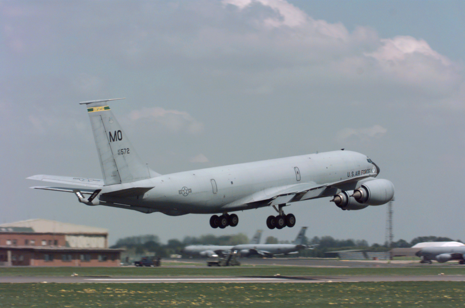 A KC-135 Stratotanker from Mountain Home Air Force Base, Idaho, lifts off at RAF Fairford, England, April 28, 1999. The Stratotanker's principal mission is air refueling, which greatly enhances the U.S. Air Force capability to accomplish its mission of Global Engagement. It also provides aerial refueling support to U.S. Navy, U.S. Marine Corps and allied aircraft. B-52H, B-1B and KC-135R aircraft and support personnel are forward deployed to RAF Fairford in support of NATO Operation Allied Force